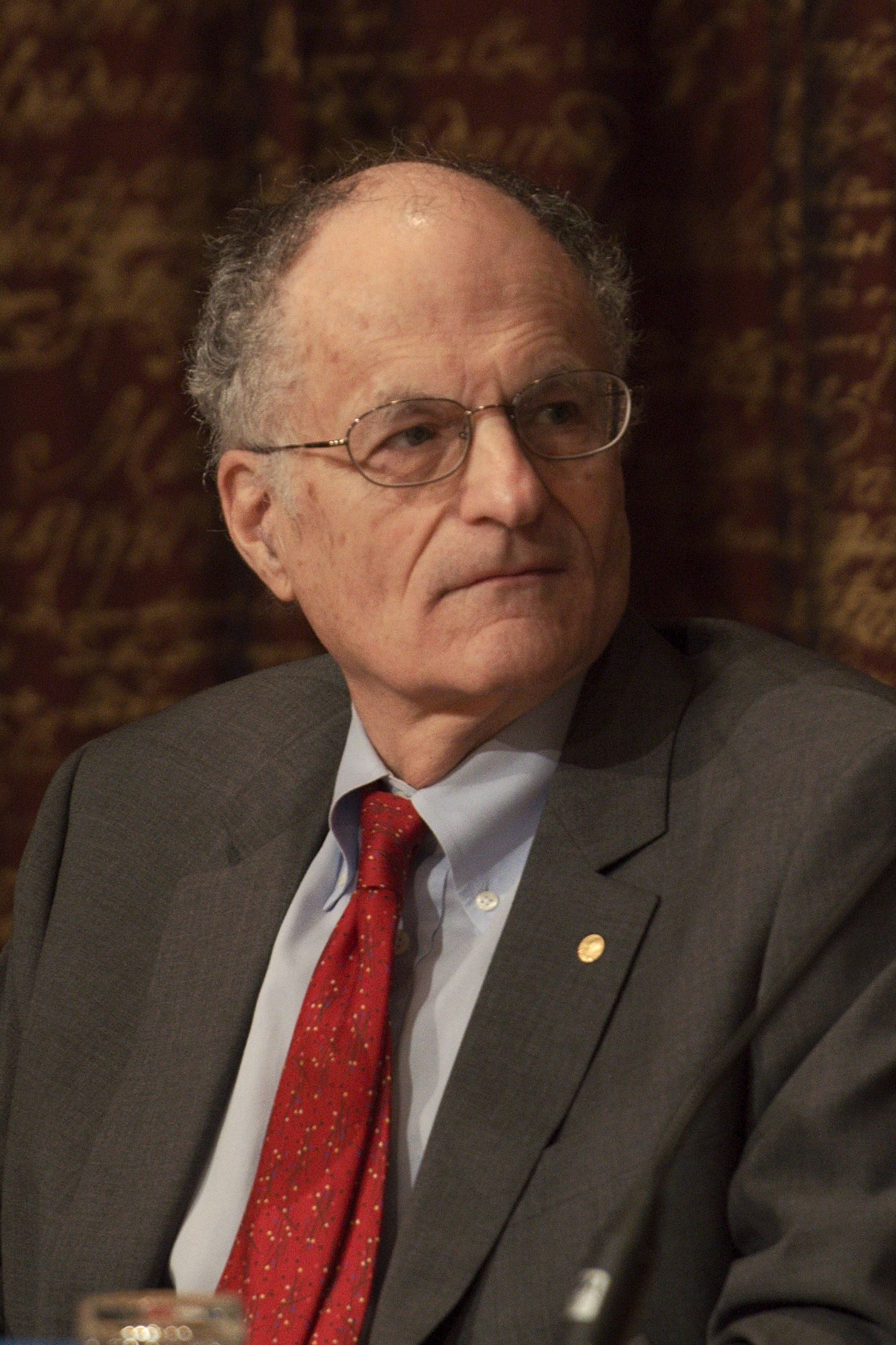 Nobel Prize 2011, press conference with the laureates of the Nobel prizes in chemistry and physics and the memorial prize in economic sciences at the Royal Swedish Academy of Sciences.